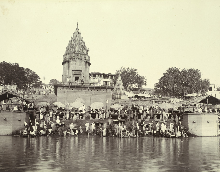 View of the Dashashvamedha Ghat from the Kitchener of Khartoum Collection: 'Views of Benares. Presented by the Maharaja of Benares' by Babu Jageswar Prasad in 1883. Dashashvamedha Ghat, on the River Ganges at Varanasi, is one of the busiest of the cities many ghats, where residents and pilgrims perform their ablutions, Brahmin priests sit on wooden platforms under bamboo umbrellas to offer prayers for their clients, masseurs ply their trade and boatmen jostle for custom. The name of the Ghat is derived from the legend that this was the site where Lord Brahma performed the "Das ashvamedha" (10 horse) sacrifice for King Divodasa. This ghat is regarded as one of the world’s most celebrated tirthas, or ‘crossing places’ where the devotee can gain access to the divine and gods and goddesses can come down to earth.